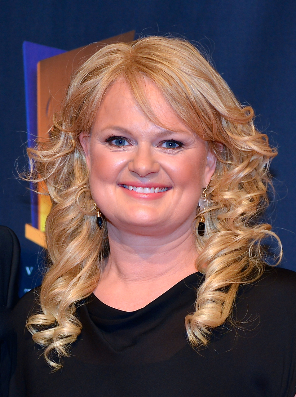 Anette Norberg at the Swedish Sports Gala at the Ericsson Globe in Stockholm, January13, 2014.